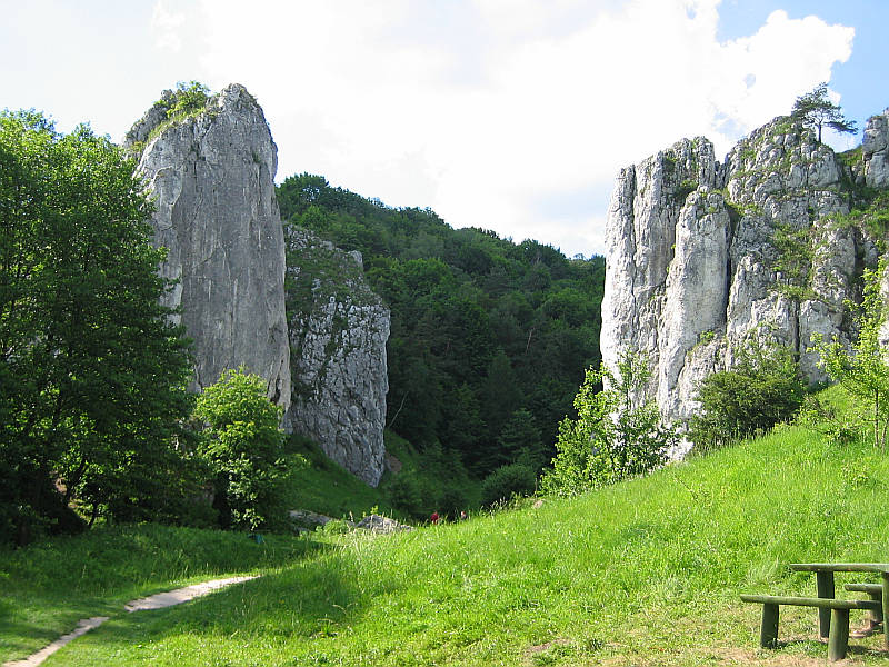 Poland. Bolechowice Valley near Cracow. Beautyful place.